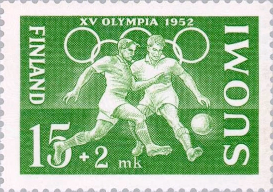 Postage stamp celebrating the 1952 Olympic Games in Helsinki